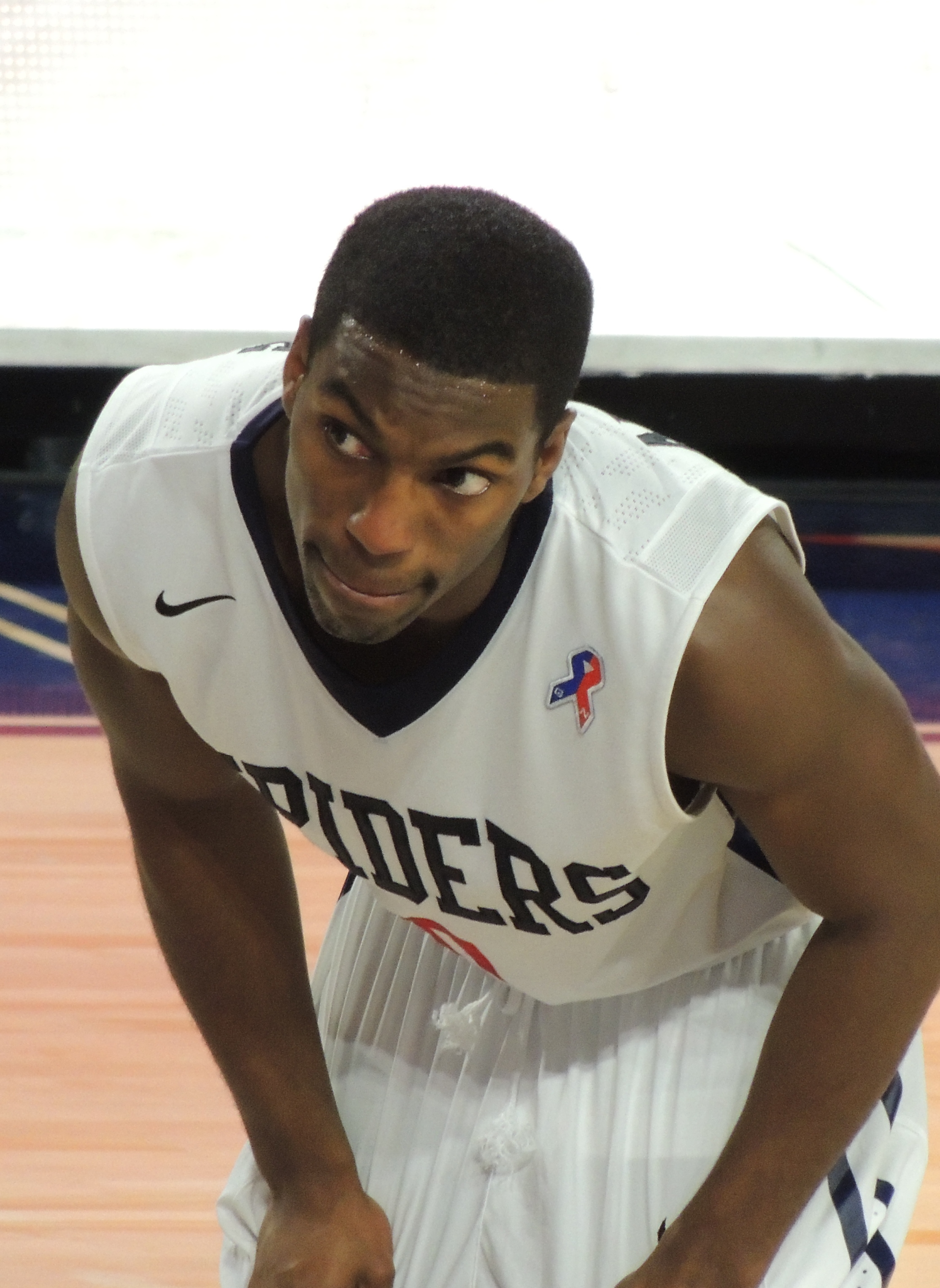 University of Richmond basketball player Kendall Anthony